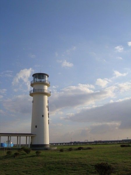 This is the tower in SMU.